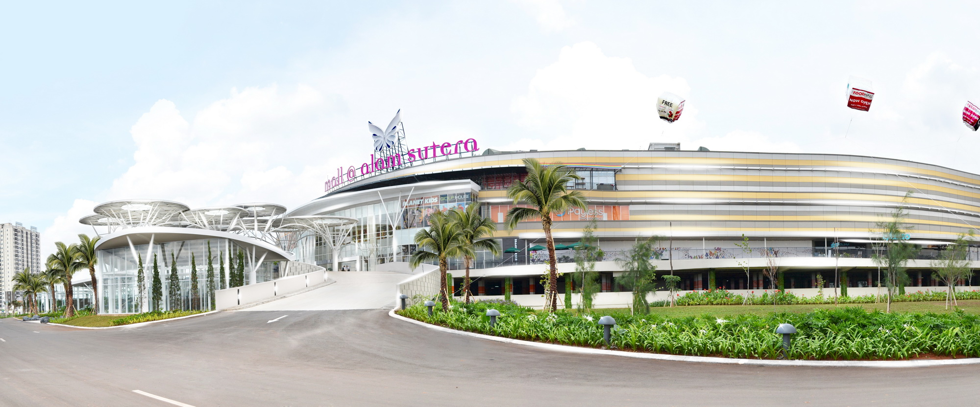 mall @ alam sutera